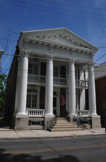 This is the house Ike & Mamie Eisenhower stayed in while he was Commander of Camp Colt in 1918. It's in town and not near the farm he bought own while president and retire in which is close to the battlefield